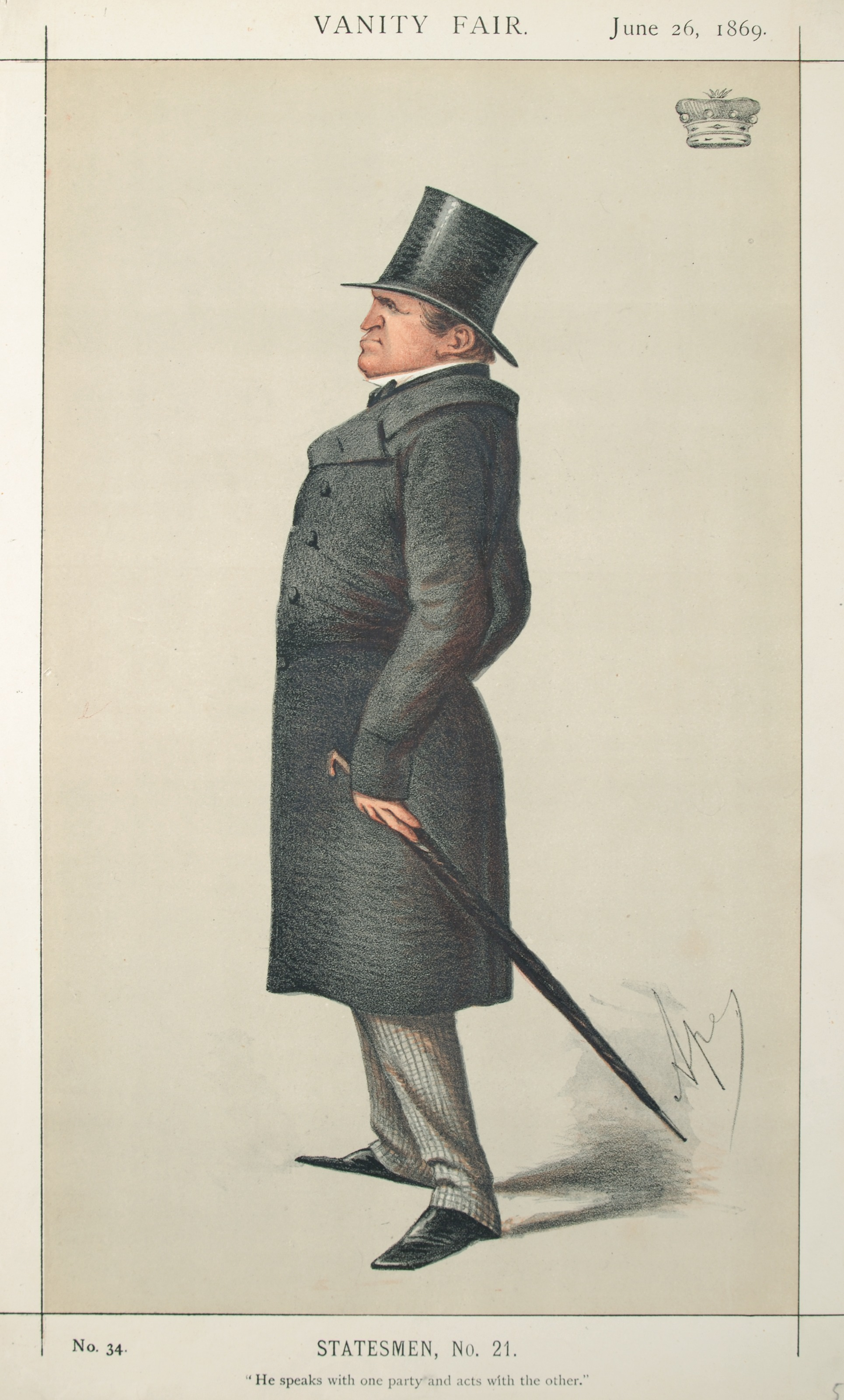 Statesmen No.21: Caricature of Lord Stanley. Caption reads: "He speaks with one party and acts with the other."